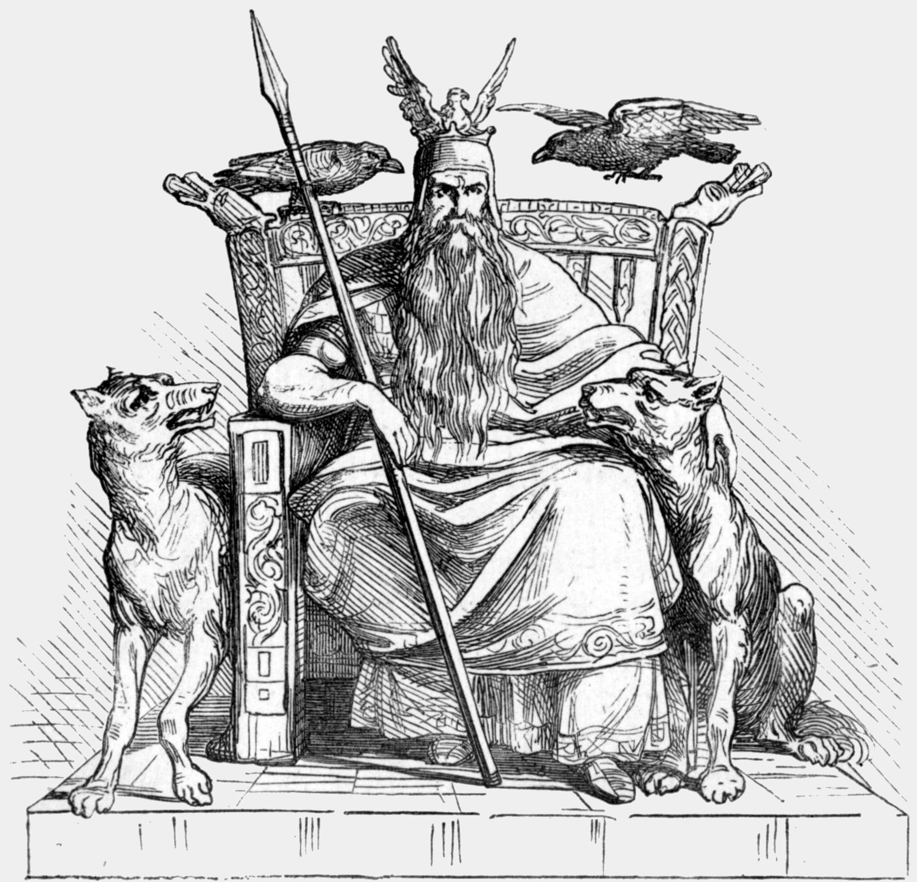 The Norse god Odin enthroned, flanked by his two wolfs, Geri and Freki, and his two ravens, Huginn and Muninn, and holding his spear Gungnir.